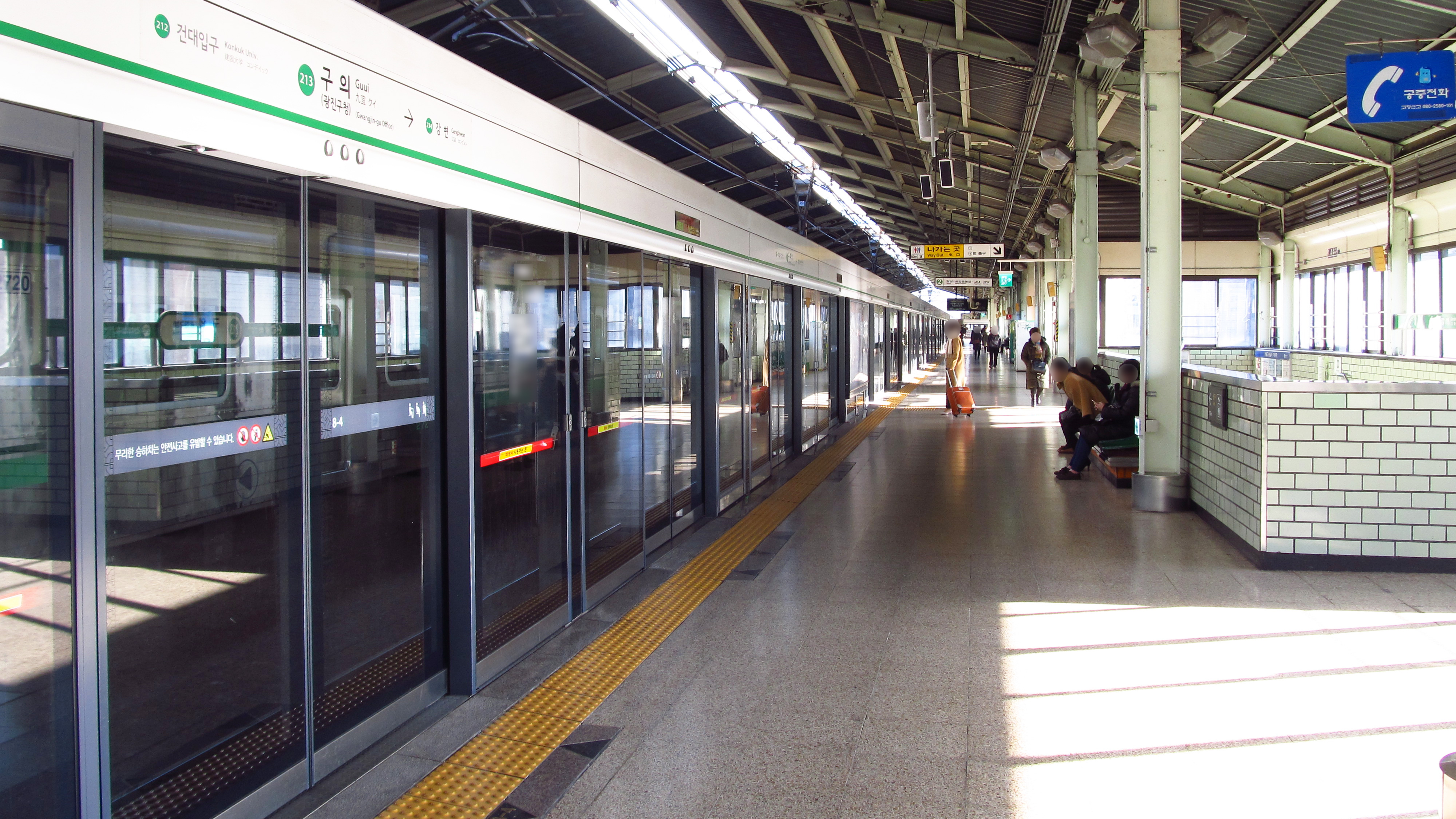 The platform at Guui Station on Seoul Subway Line 2 in Gwangjin-gu, Seoul, Republic of Korea(South Korea)